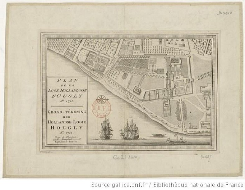 The Dutch factory at Hugly-Chinsurah, Bengal, 1721